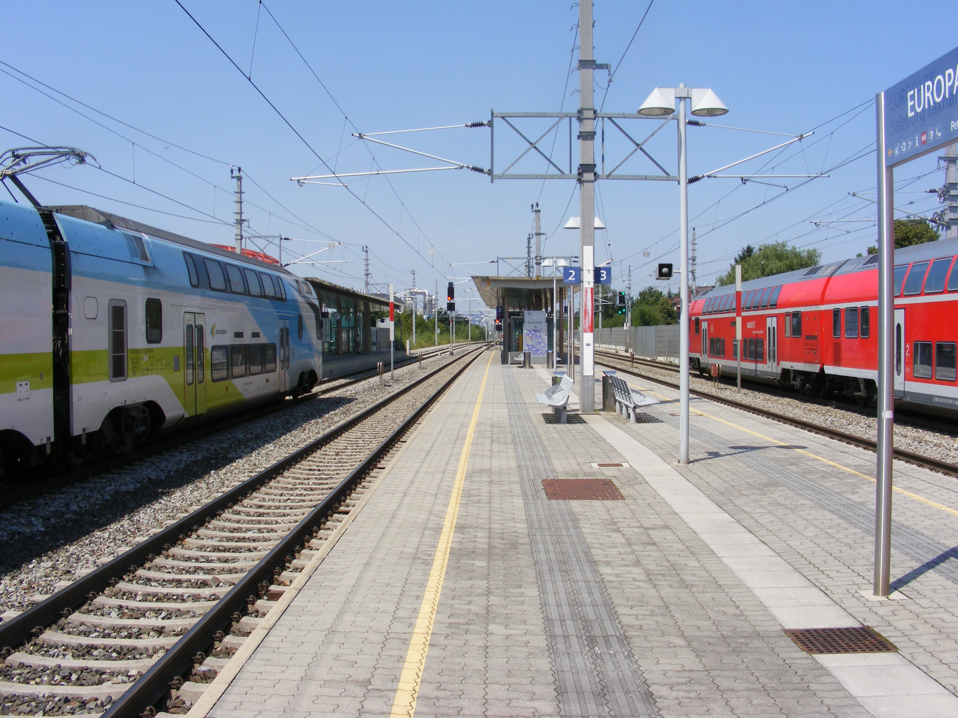 Train stop Salzburg Taxham Europark, city of Salzburg, Austria; platforms 2 and 3.